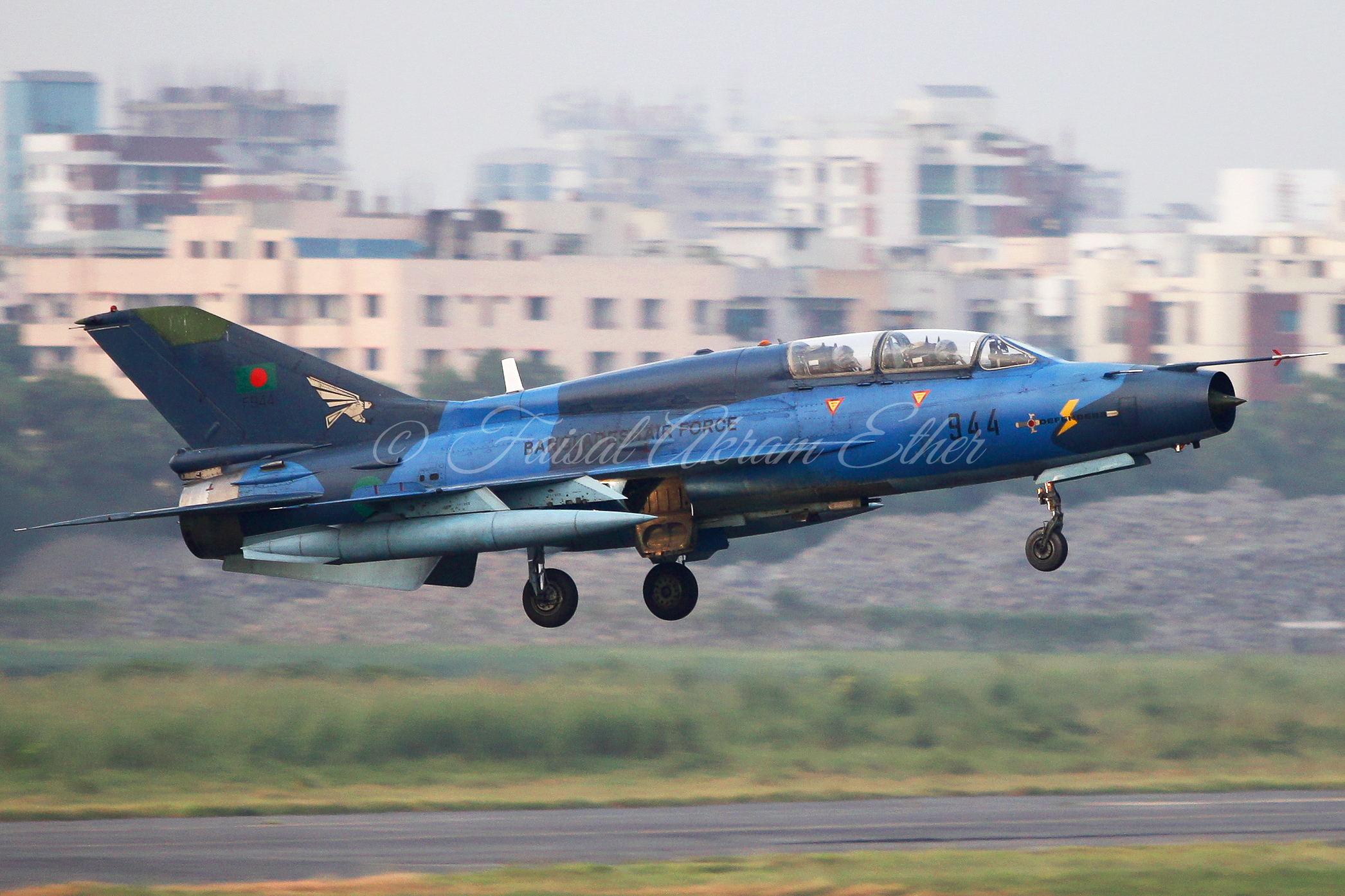 944 Chengdu FT-7BG Bangladesh Air Force Landing at Hazrat Shahjalal International Airport Dhaka - VGHS DAC